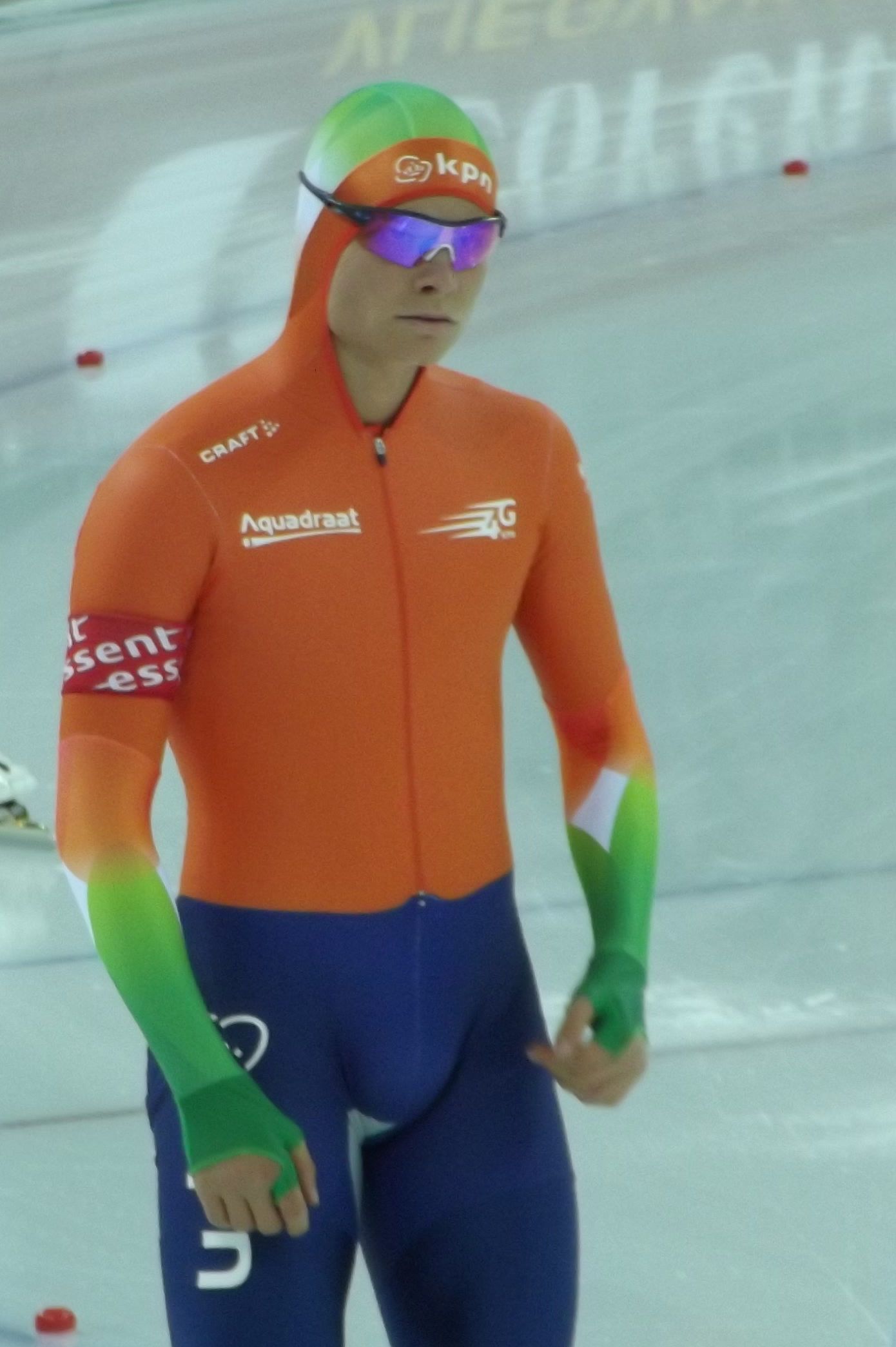 2013 World Single Distance Speed Skating Championships